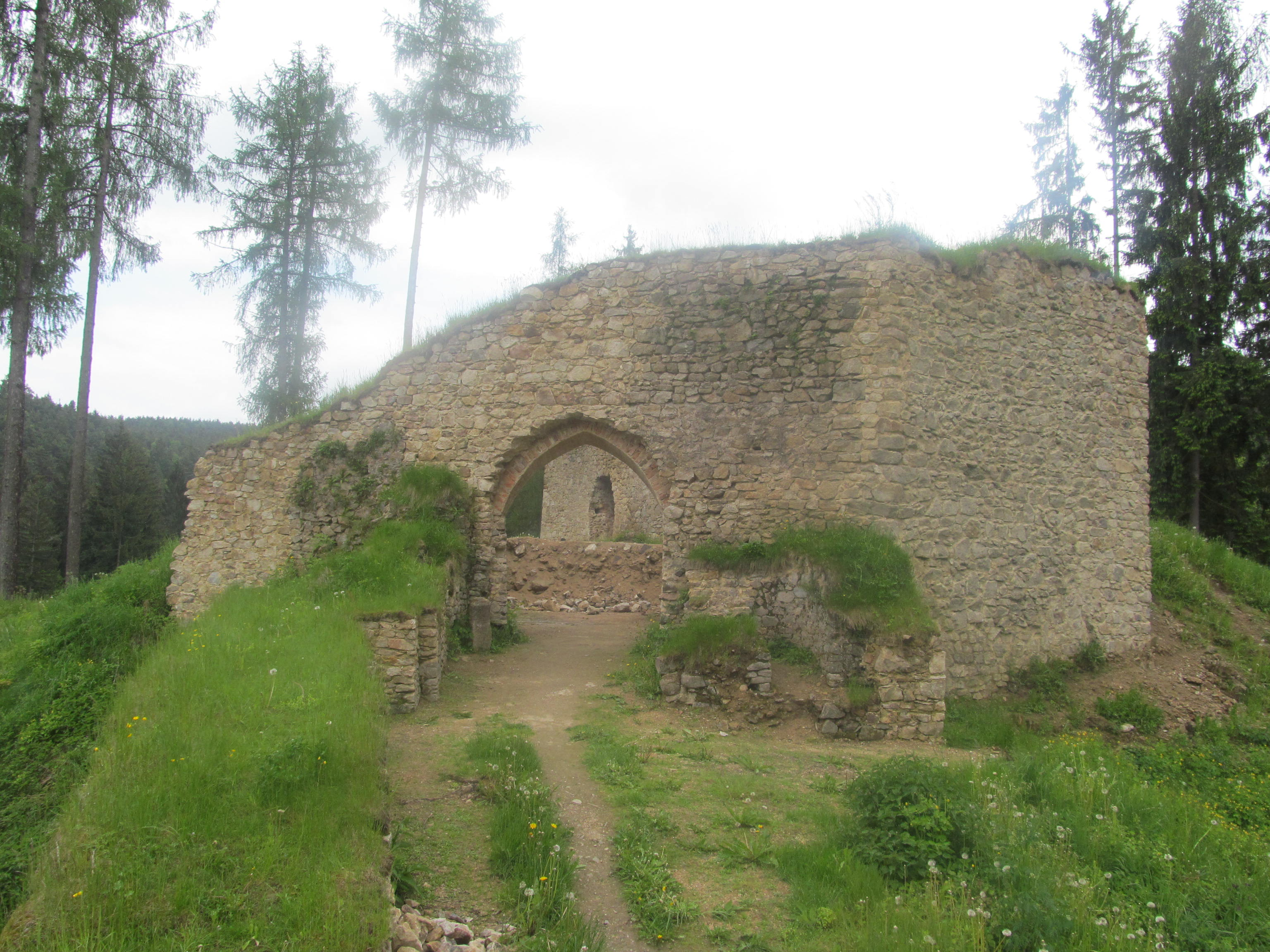 Pořešín Castle_3rd Gate